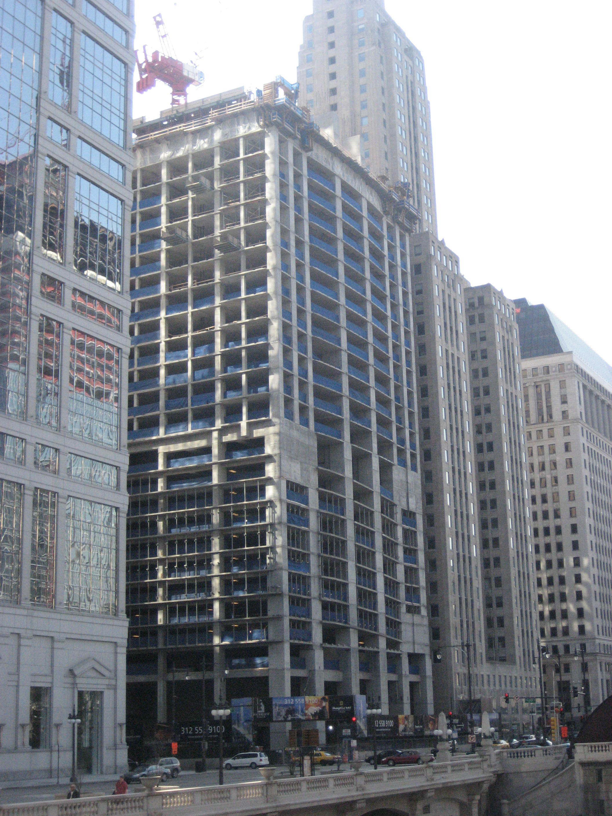 Construction photo of Waterview Tower in Chicago